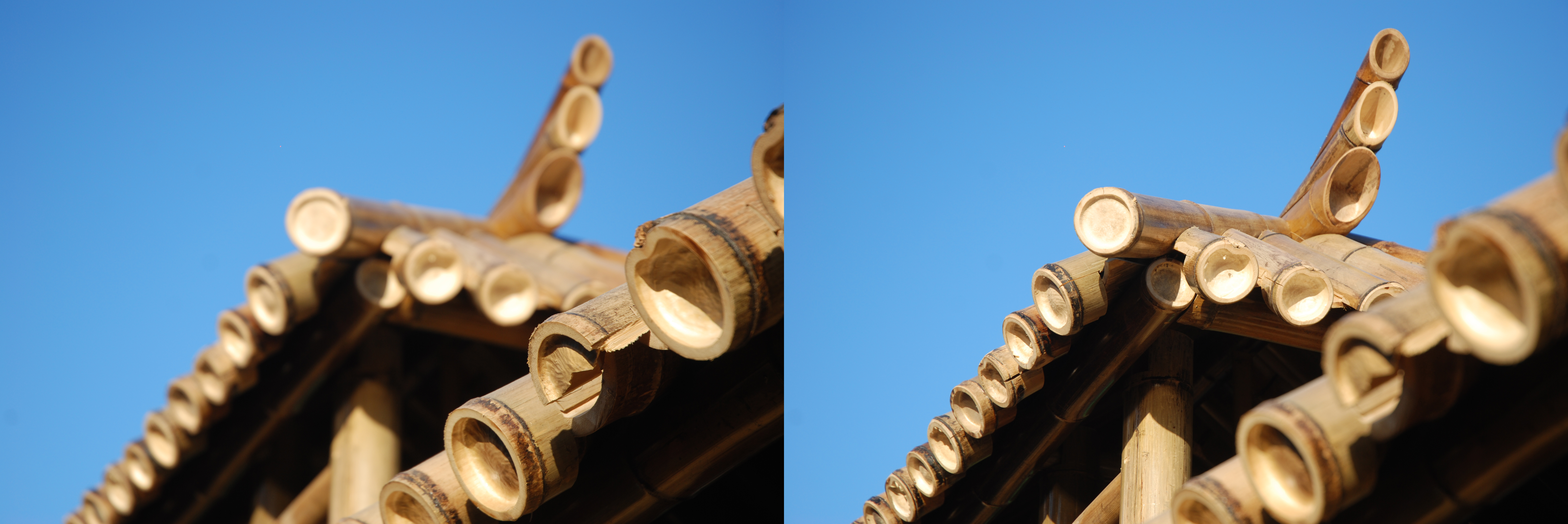 Demonstration of photography focus to different distances : Bamboo rooftop